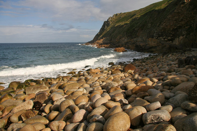 Porth Nanven beach. Smooth round boulders of granite on the beach.